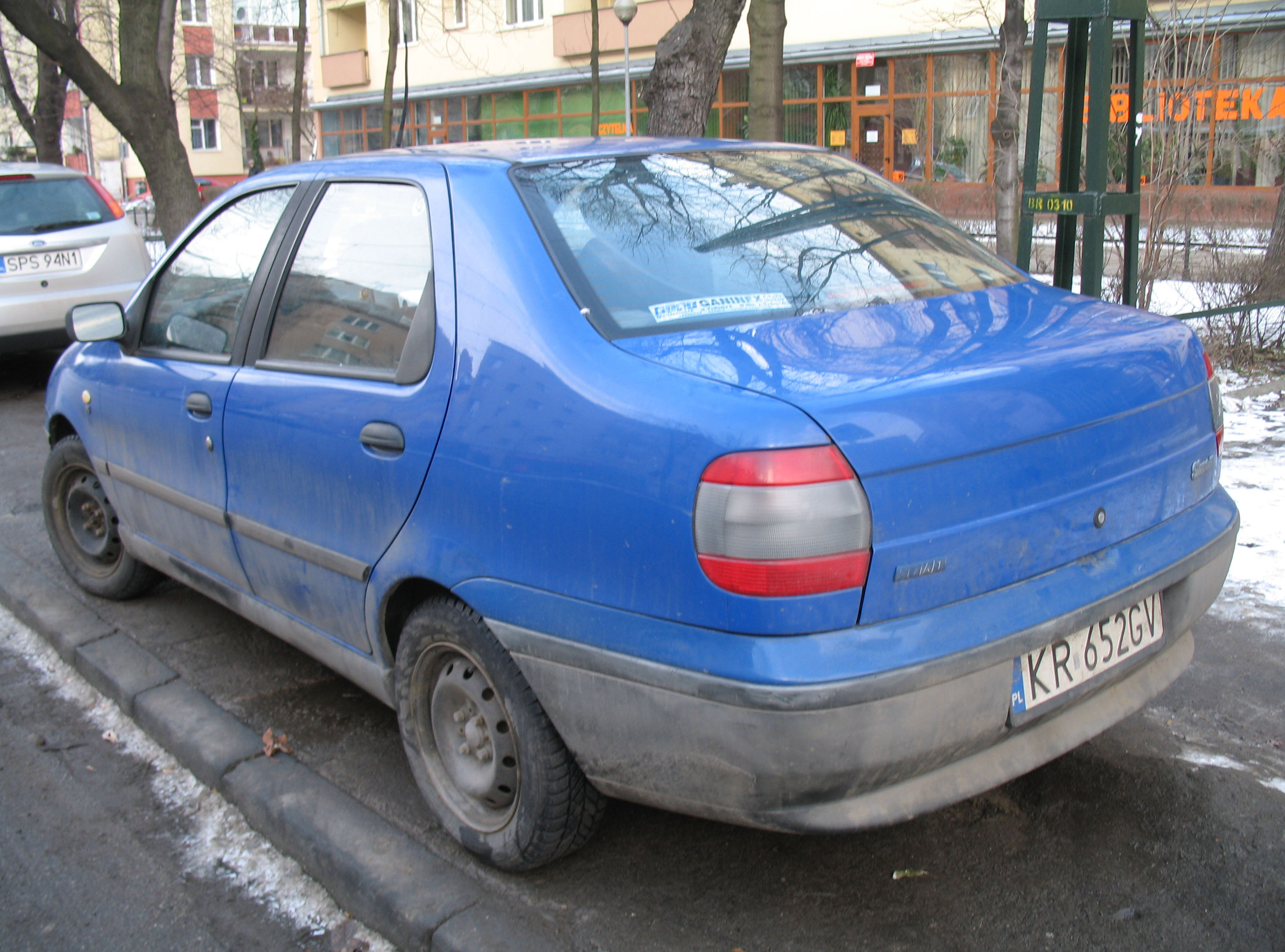 Blue Fiat Siena EL 75 car in Kraków, Poland.